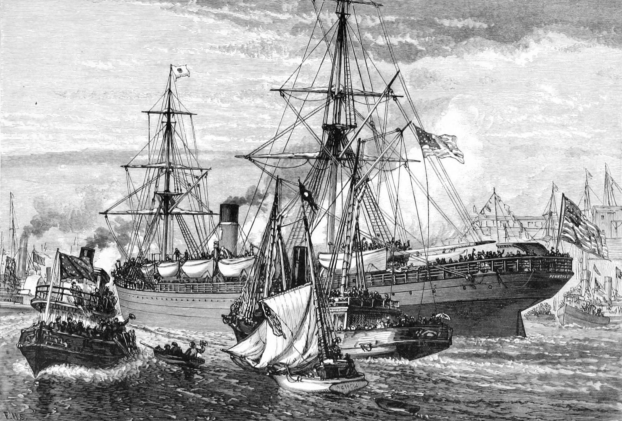 SS Pennsylvania (1872) embarking on her trial trip, May 5 1873. The event was celebrated as a half-day holiday by the citizens of Philadelphia, about 50,000 of whom are said to have attended.